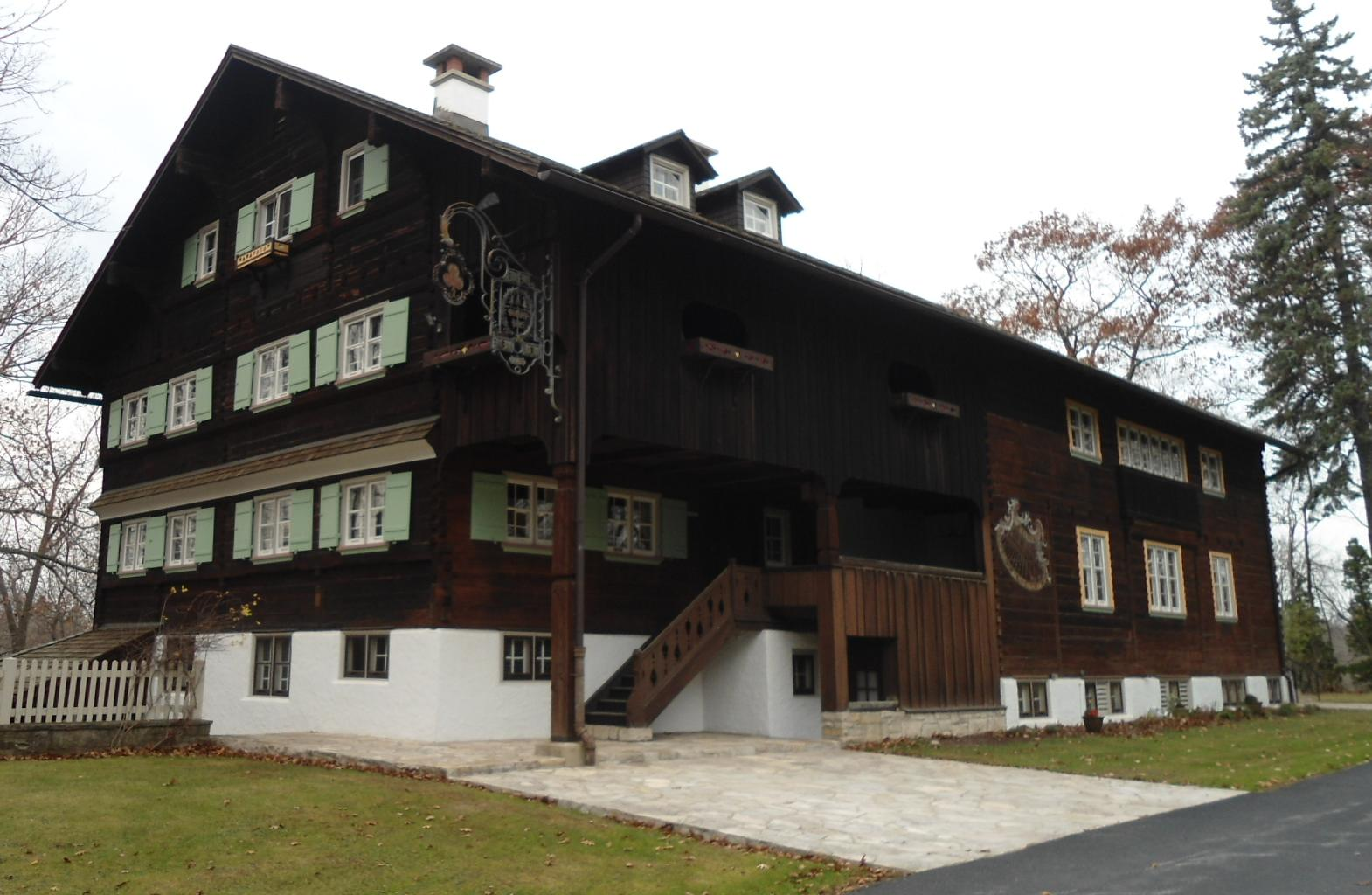 View from SE